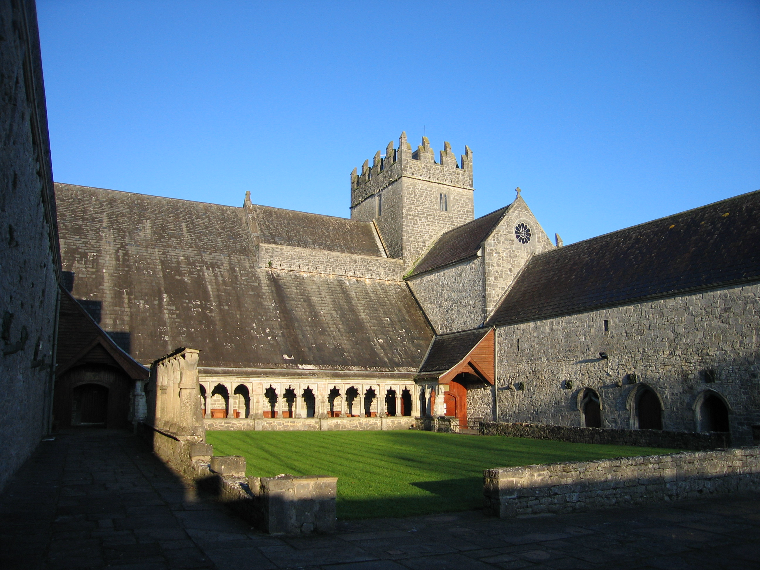 Holycross Abbey Co Tipperary (Sarah777)